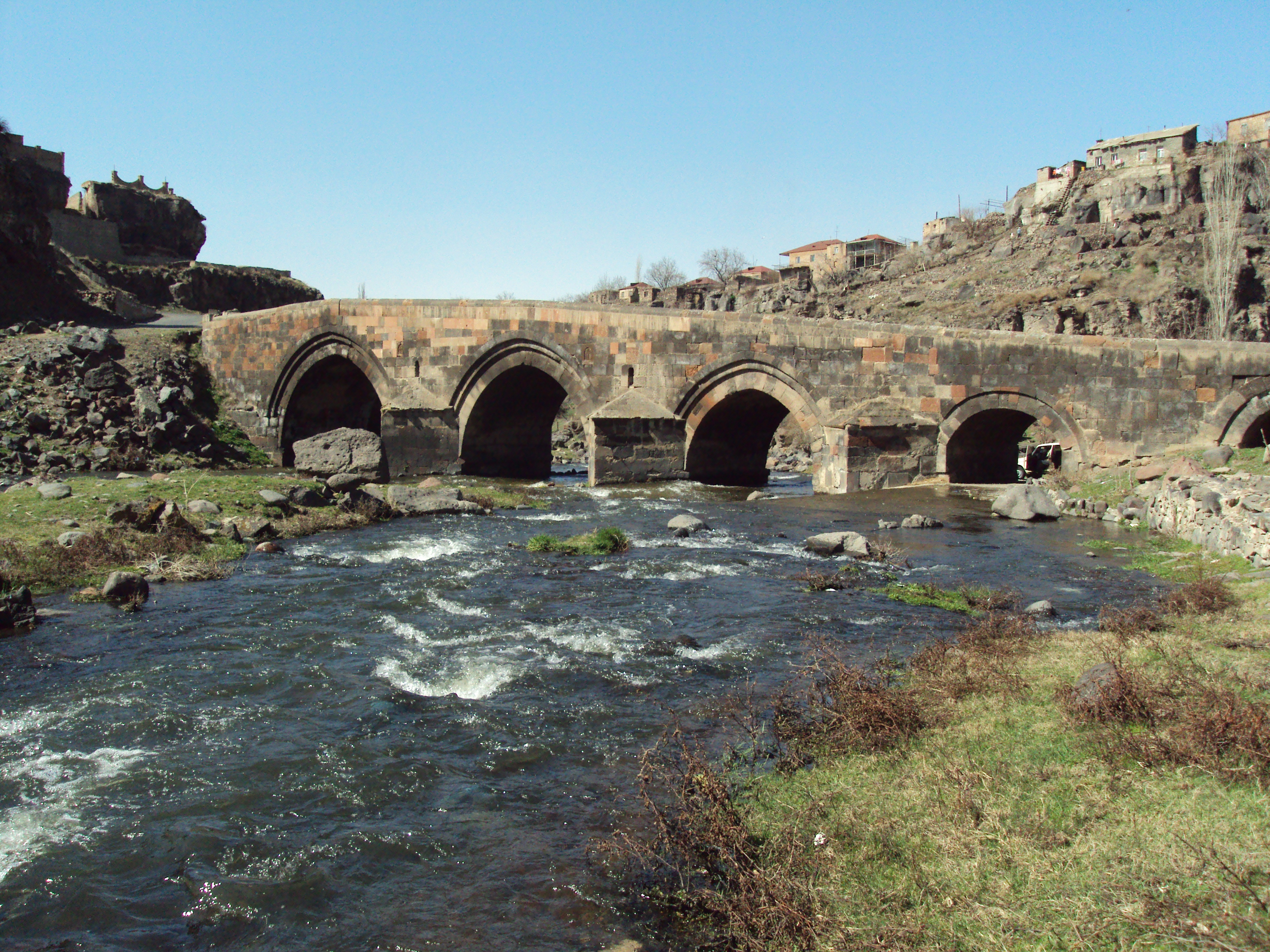 Medieval bridge (1706), with 5 aisles (arches)